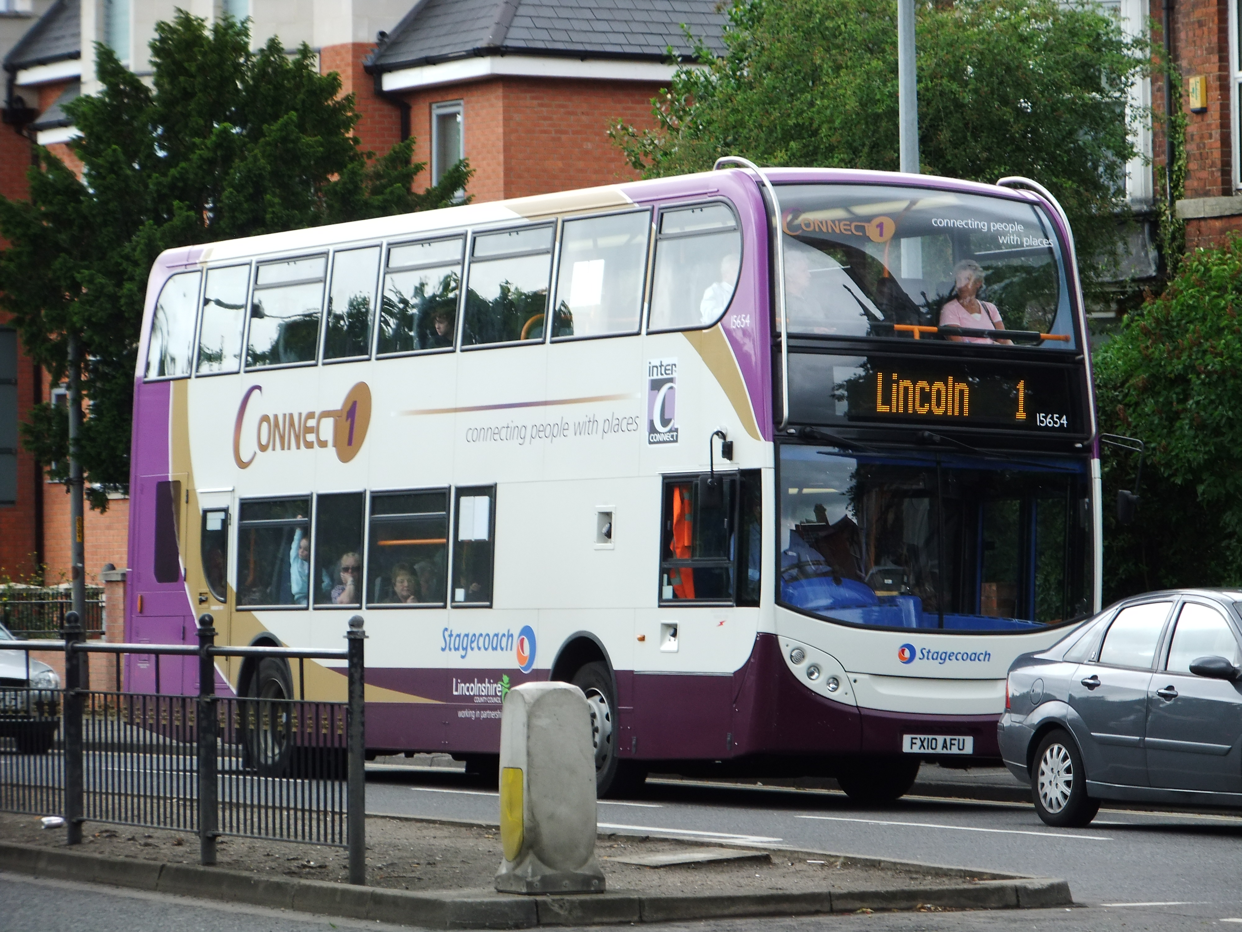 Bus on St Catherine's, Lincoln, England.